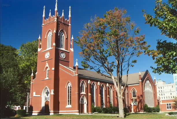 photo by Einar Einarsson Kvaran London